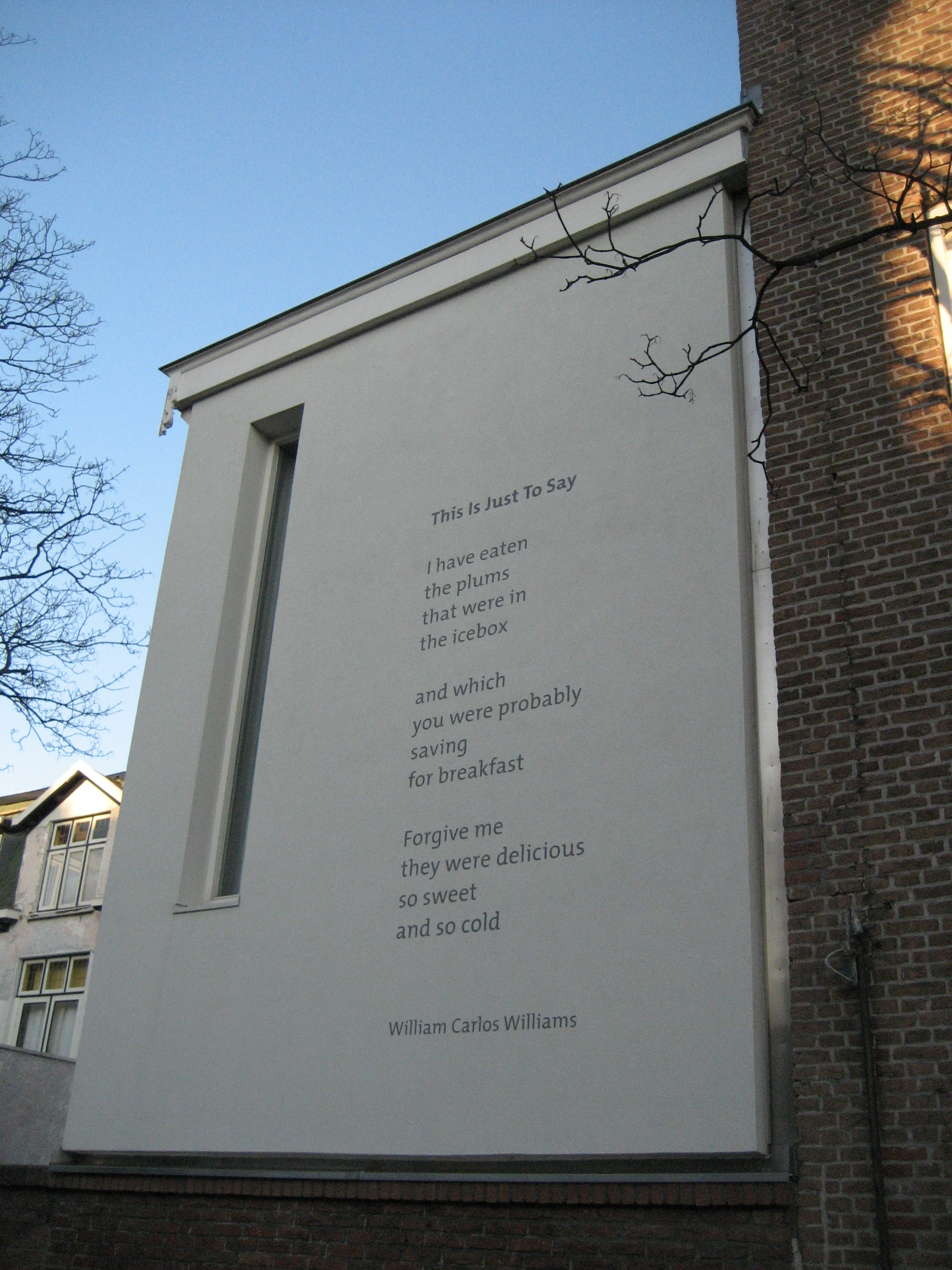 Poem This Is Just To Say by William Carlos Williams. Bankastraat, The Hague (The Netherlands), since July 2013. Letter: The Mix; typographer: Lucas de Groot